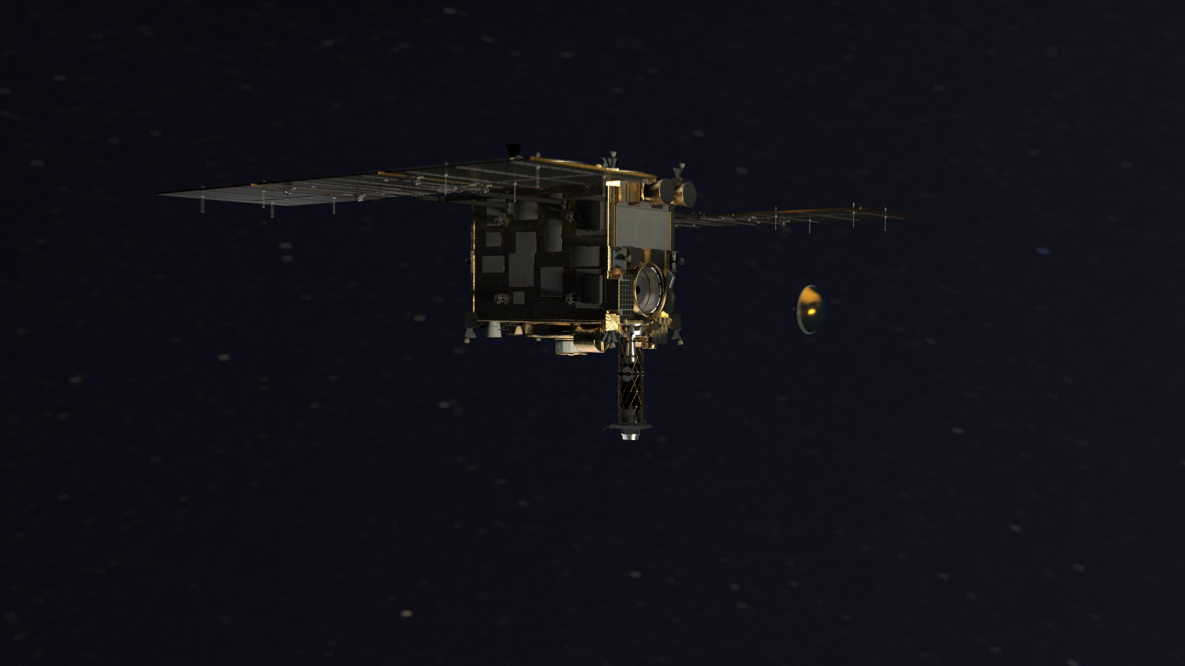 Hayabusa 2 - Separation of the Reentry Capsule